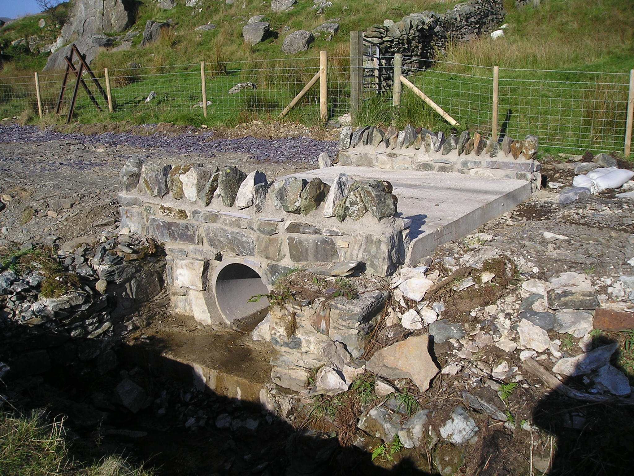 made by me Noel Walley